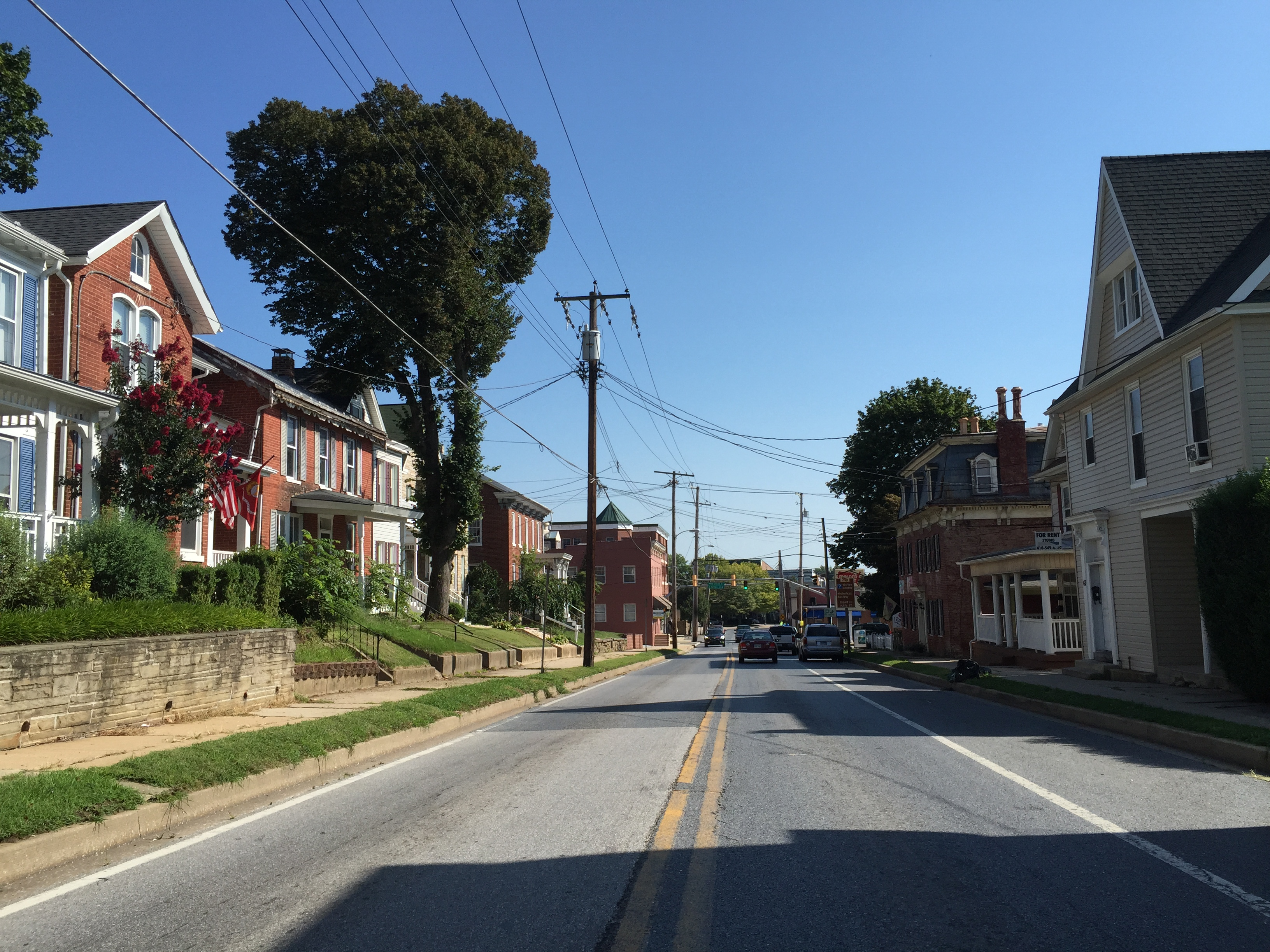 View north along Maryland State Route 27 (Liberty Street) at Chase Street in Westminster, Carroll County, Maryland